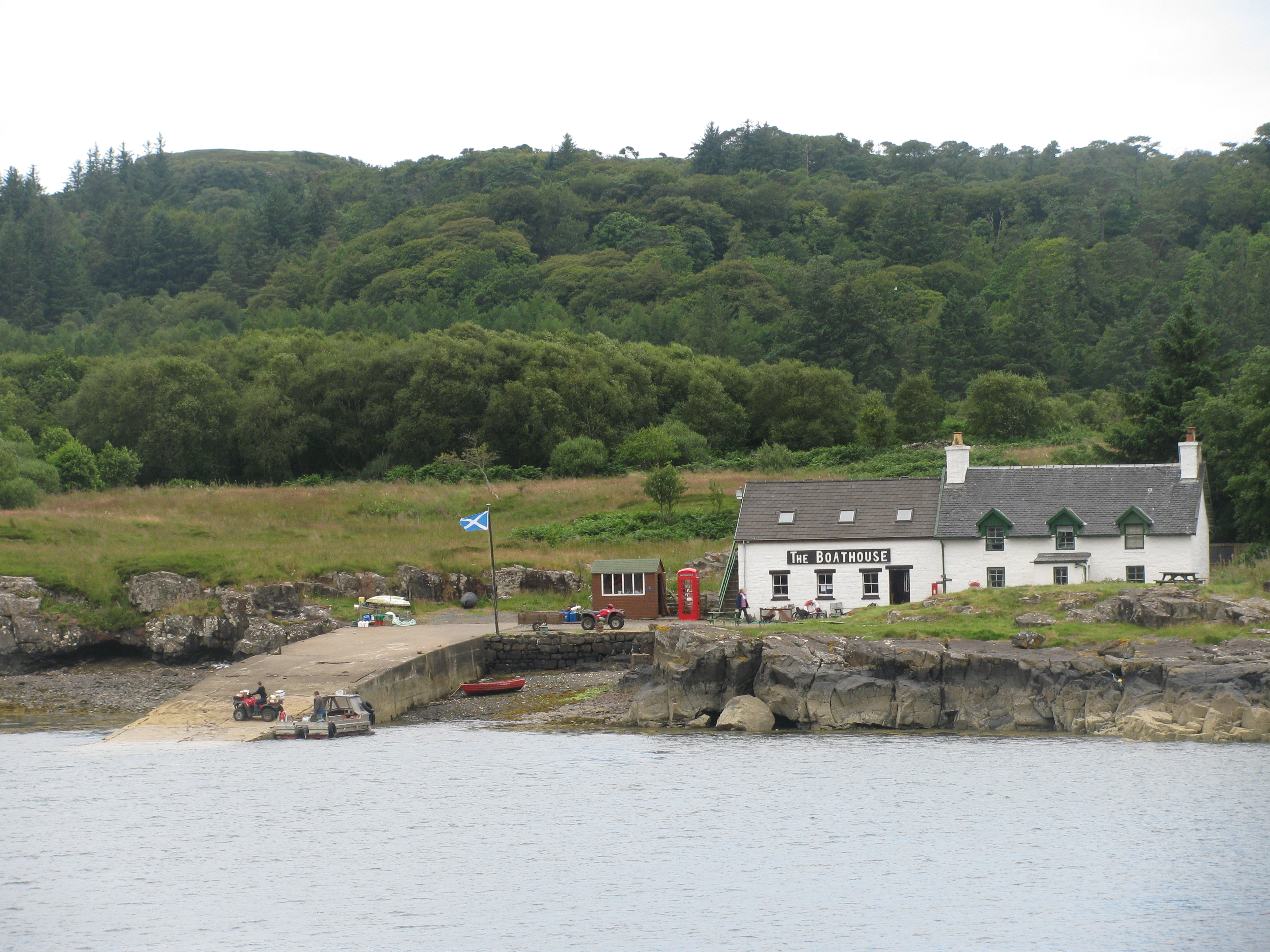 The Ulva boat terminal